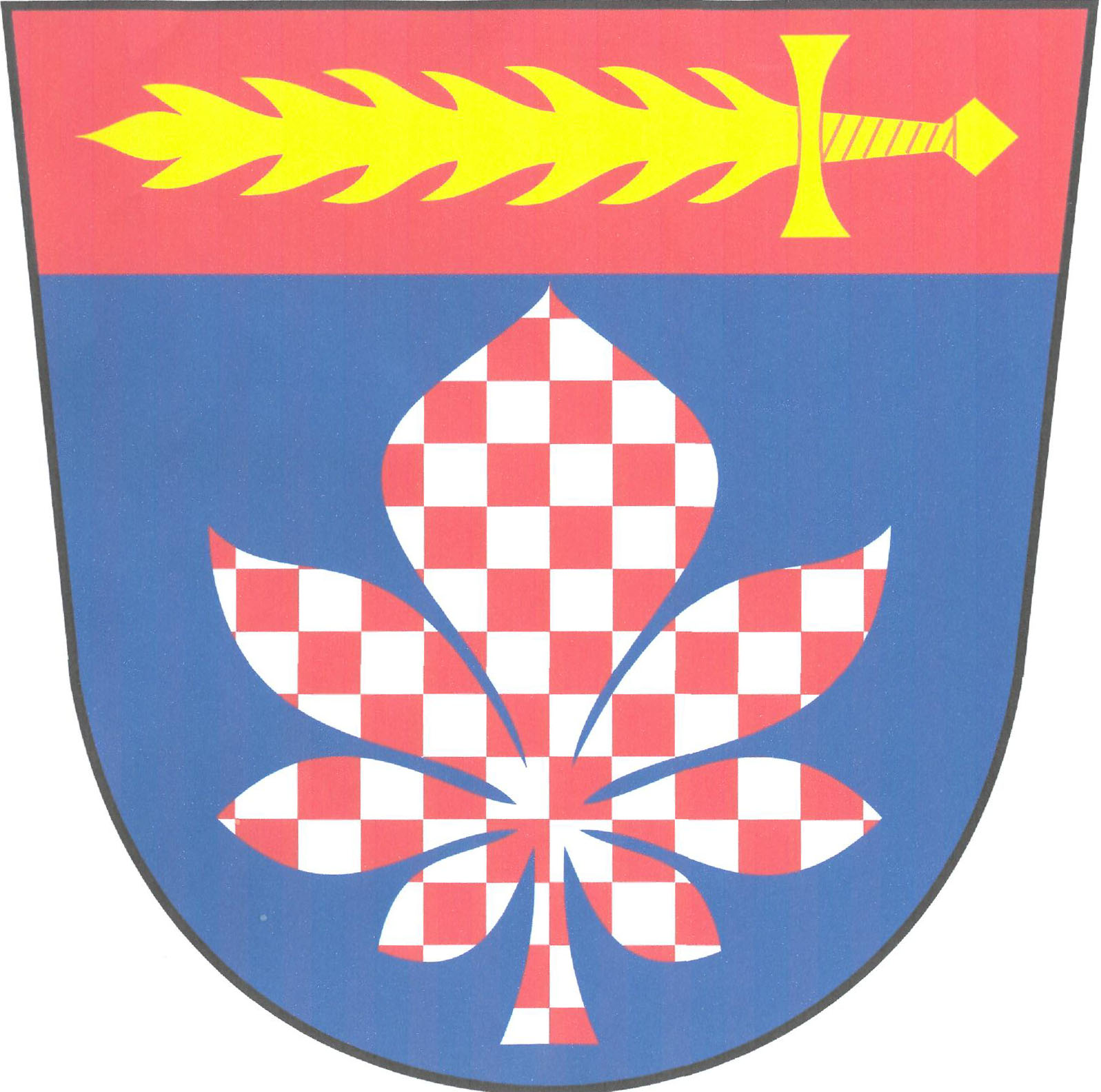 Coat of amrs of Mratín , District Prague East, Czech Republic